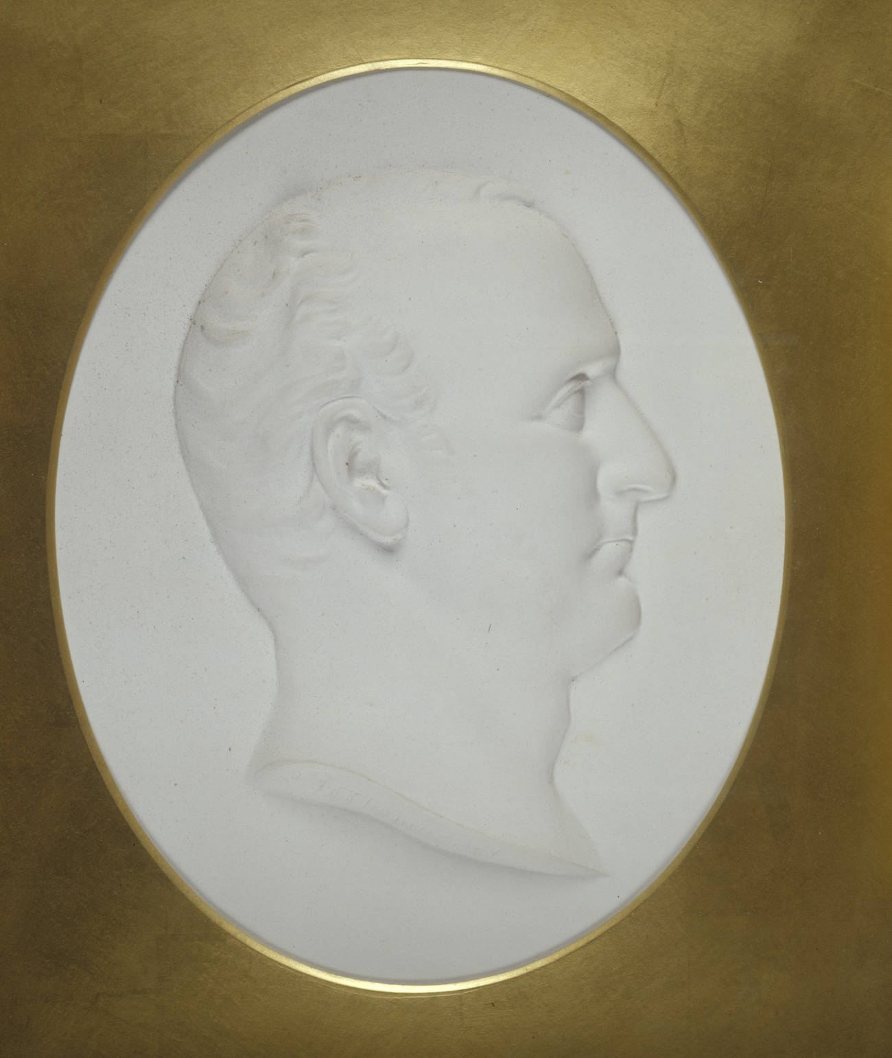 Plaster, oval bas relief of Sir Redmond Barry